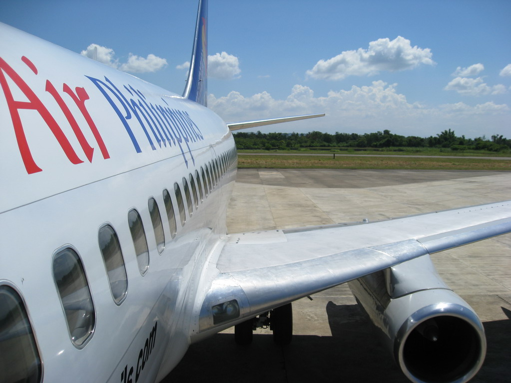 This photo of a B737-200adv was taken at Tuguegarao Airport upon deboarding by John Paul Solis at July 4th for public domain use on Wikipedia.